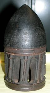 3.8 in. James shot. This pattern was patented by Charles Tillinghast James on February 26, 1856